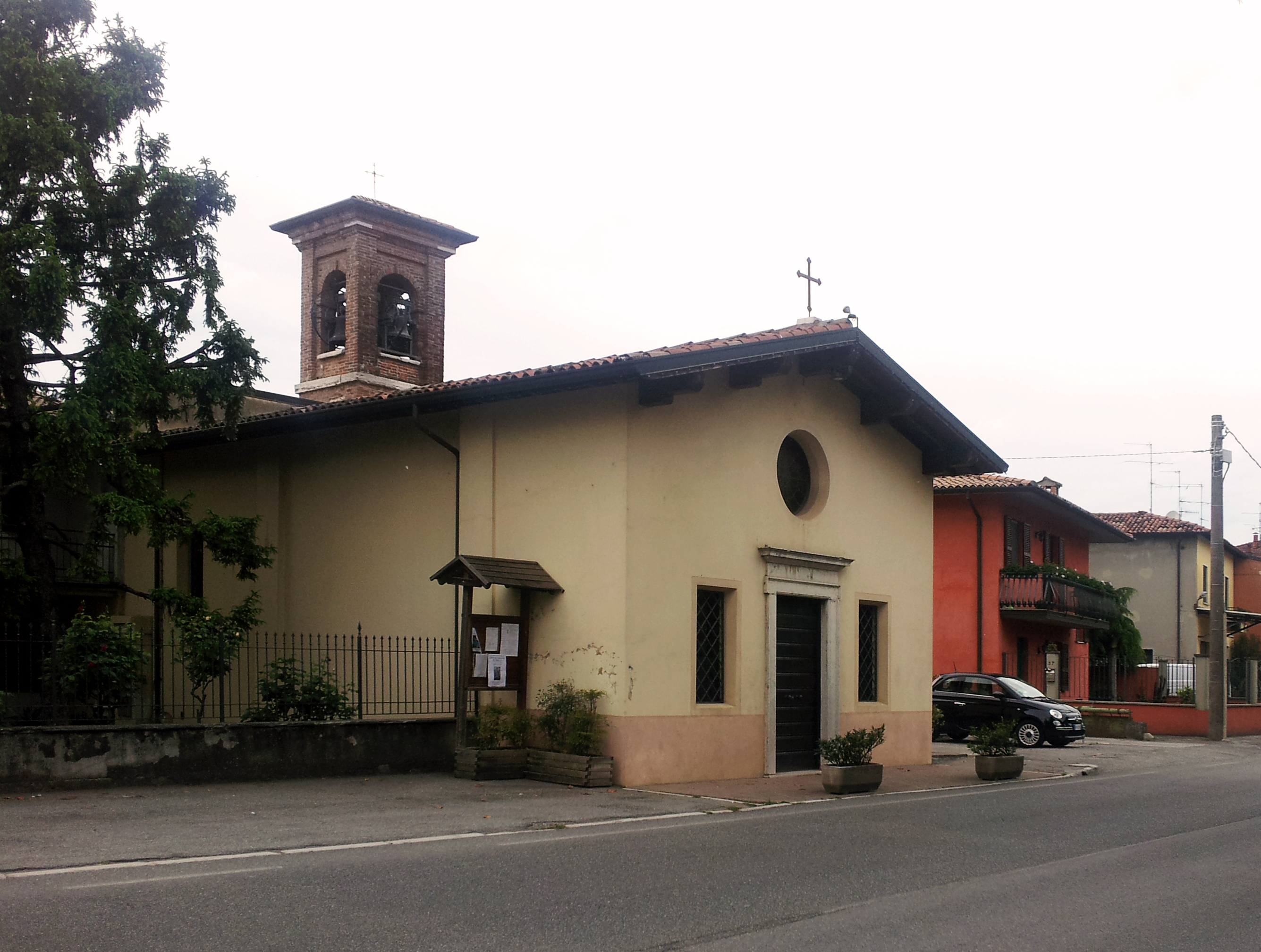 Piffione